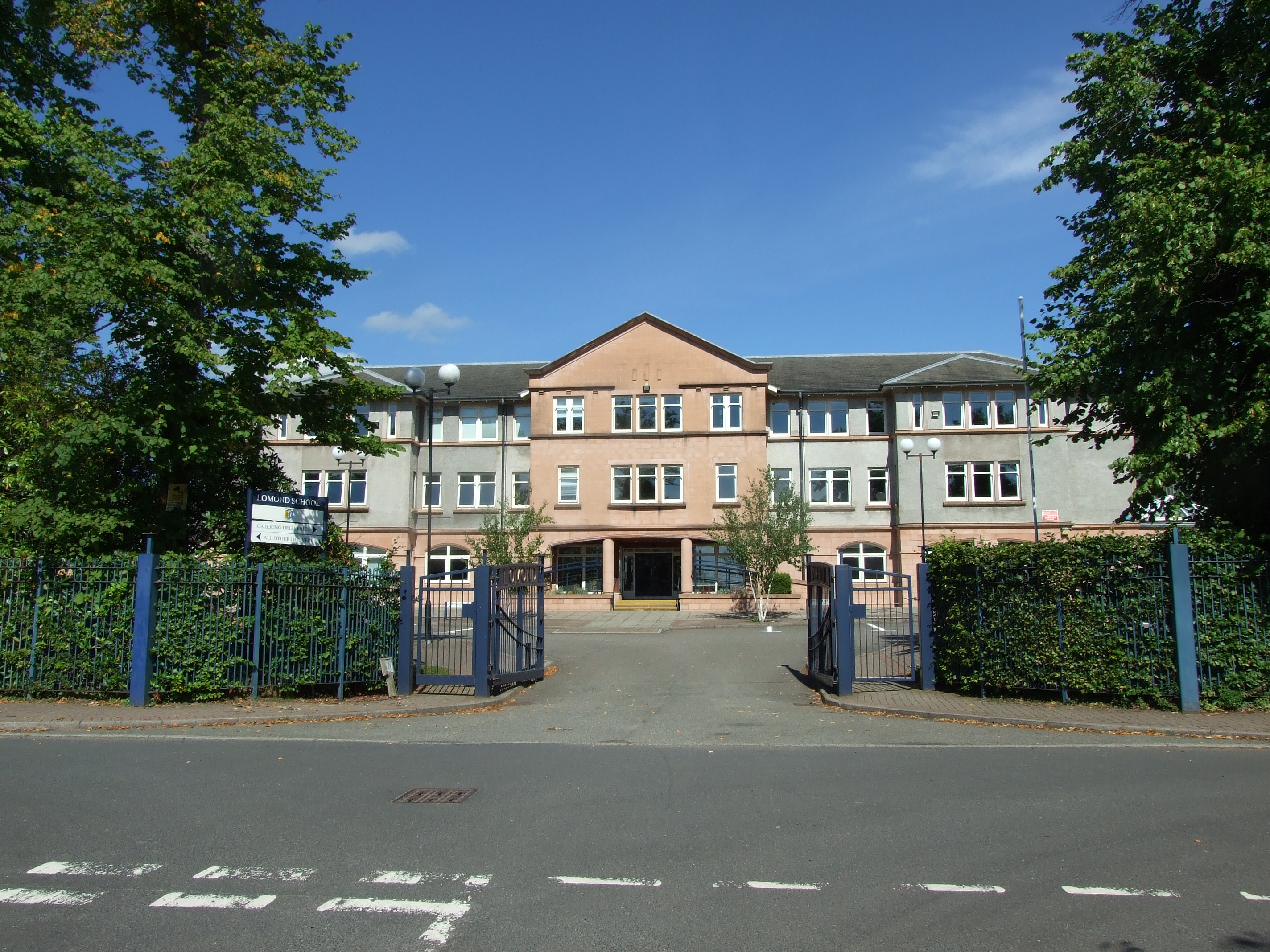 Main building of Lomond School, Helensburgh, Argyll and Bute, Scotland. This was previously the site of St Brides School, but the building was rebuilt following a fire in 1997. Photo taken from corner of John Street and Stafford Street.